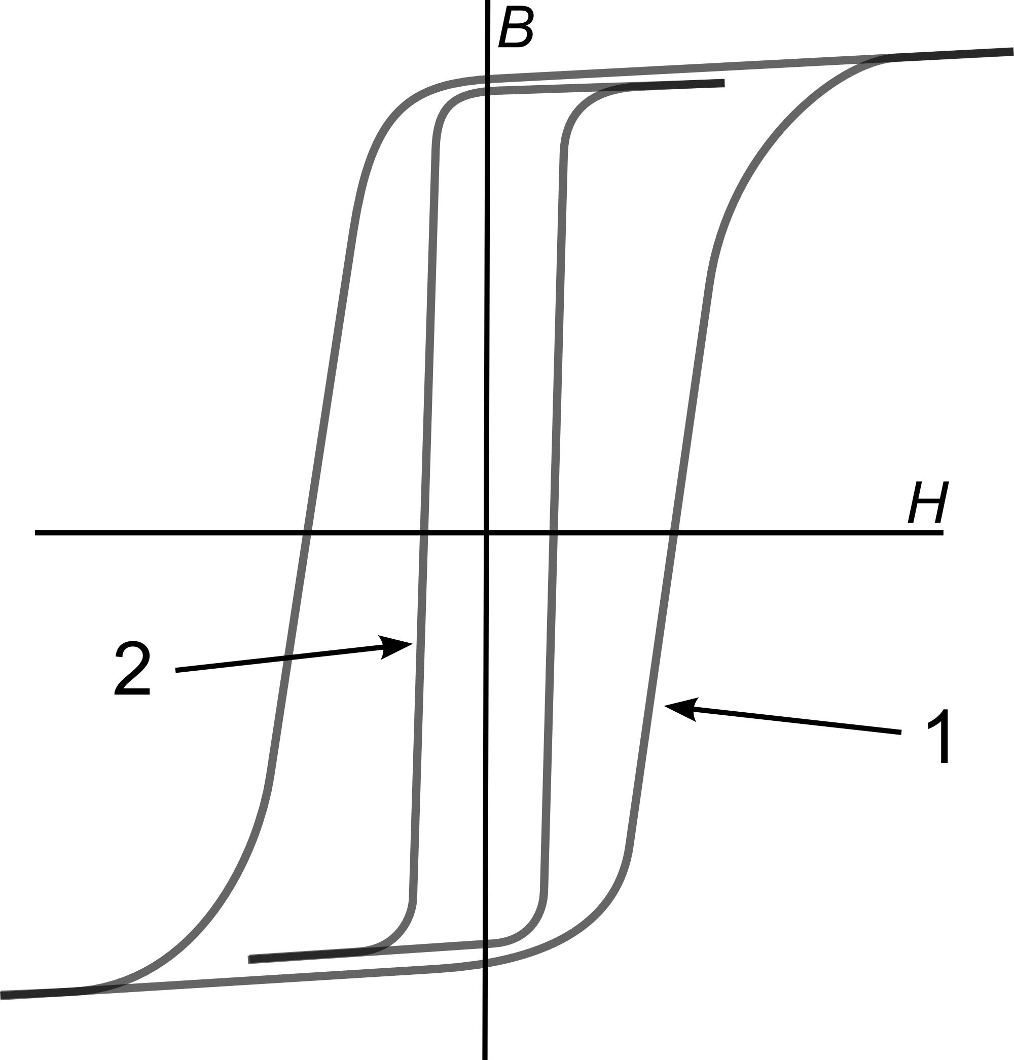 Flux-current loops of transformer grade (1) and magnetic amplifier (2) core materials. The transformer grade (1) is oriented some cheap silicon-steel transformer lamination. The magnetic amplifier (2) core material is some high-rectangularity magnetic amplifier material.